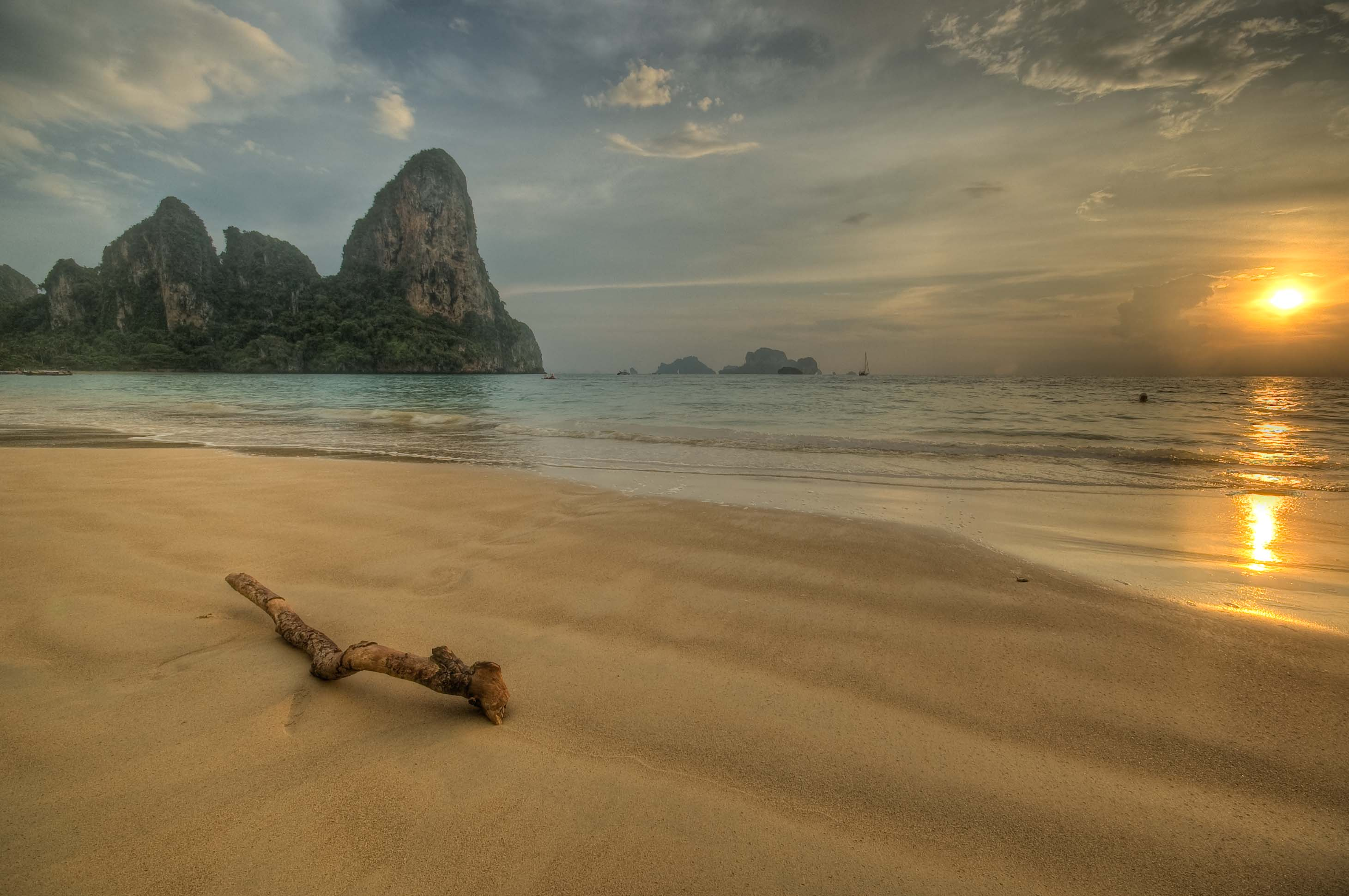 Old tree branch on sandy beach - Ao Railay West Beach Krabi Province Thailand